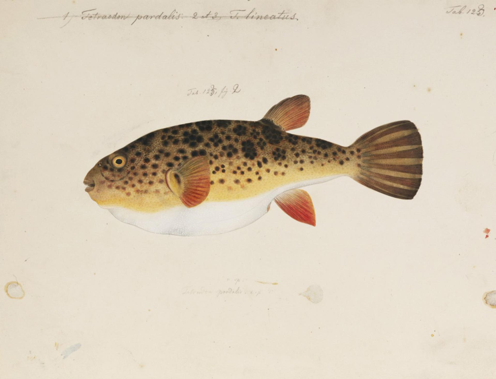 Takifugu pardalis (Temminck and Schlegel)